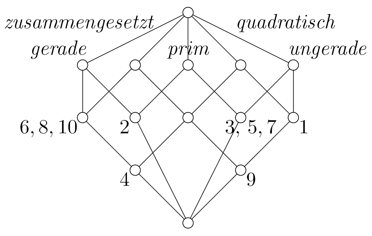 Ein Begriffsverband zu Eigenschaften der Zahlen 1-10